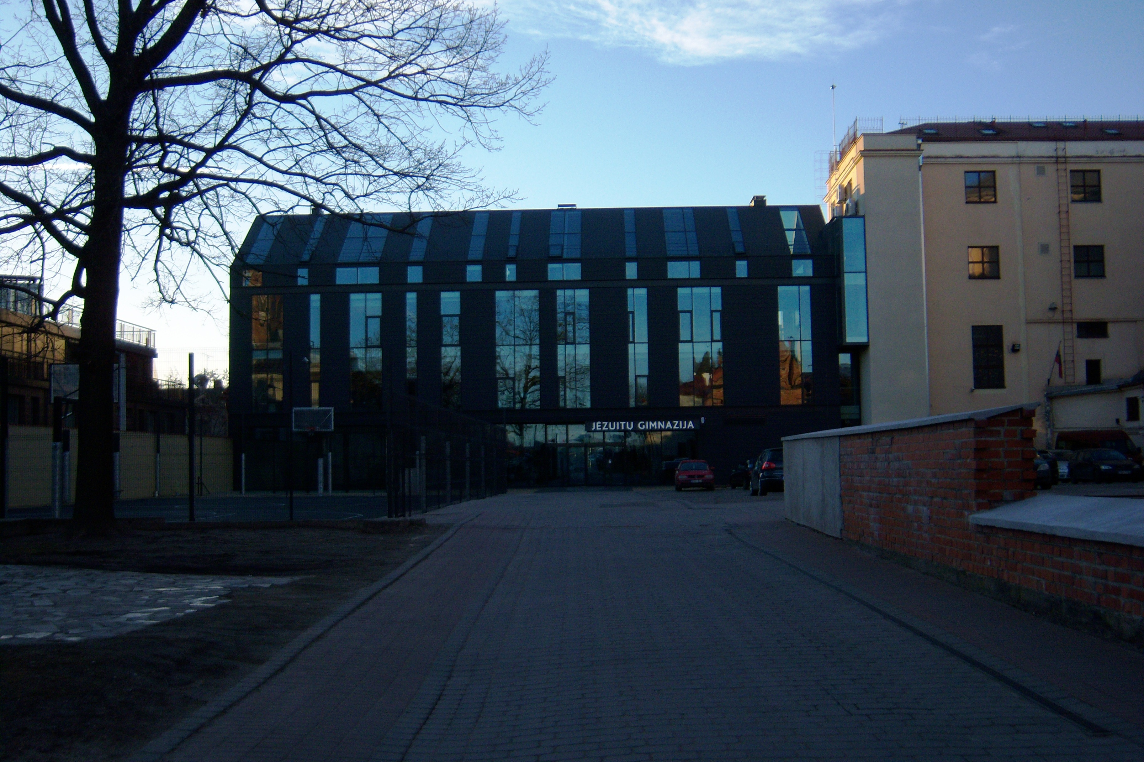 Jesuit gymnasium, Kaunas, Lithuania